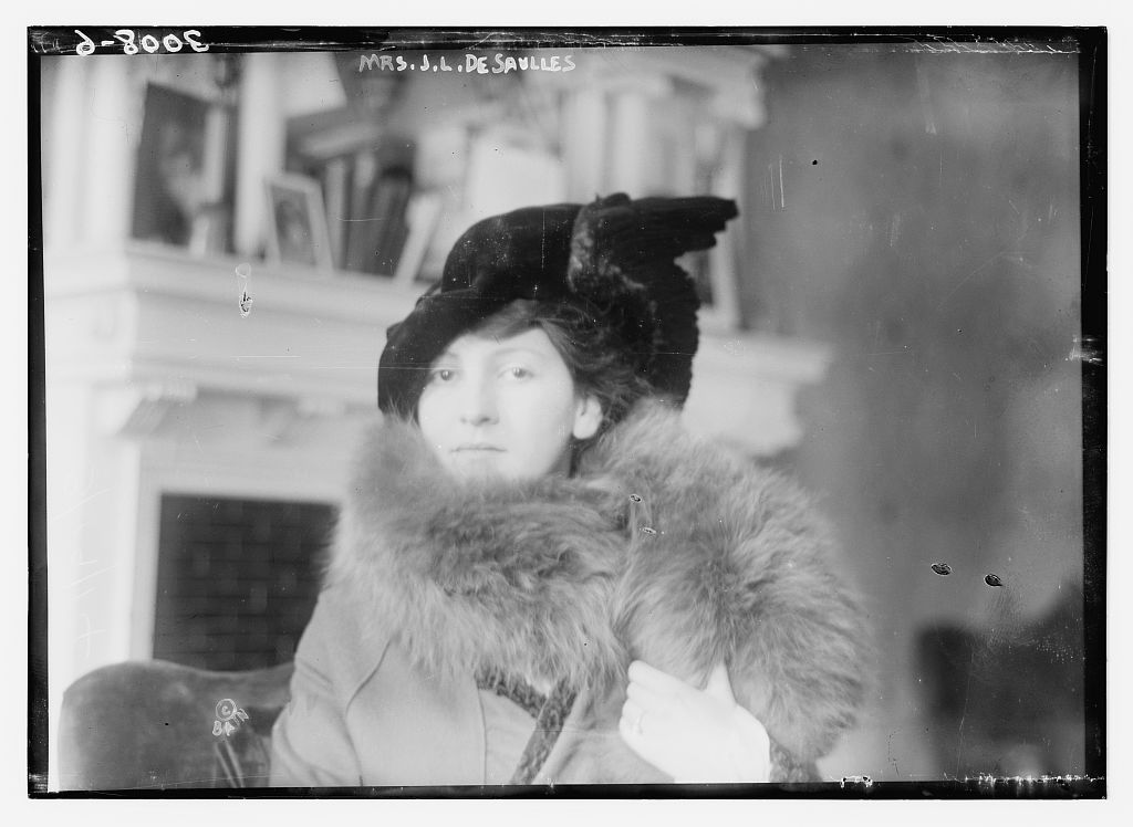 Bain News Service, publisher. Mrs. J.L. DeSavlles, Blanca Errázuriz [between ca. 1910 and ca. 1915] 1 negative : glass ; 5 x 7 in. or smaller. Notes: Title from unverified data provided by the Bain News Service on the negatives or caption cards. Forms part of: George Grantham Bain Collection (Library of Congress). Format: Glass negatives. Repository: Library of Congress, Prints and Photographs Division, Washington, D.C. 20540 USA, General information about the Bain Collection is available at Persistent URL: Call Number: LC-B2- 3008-6